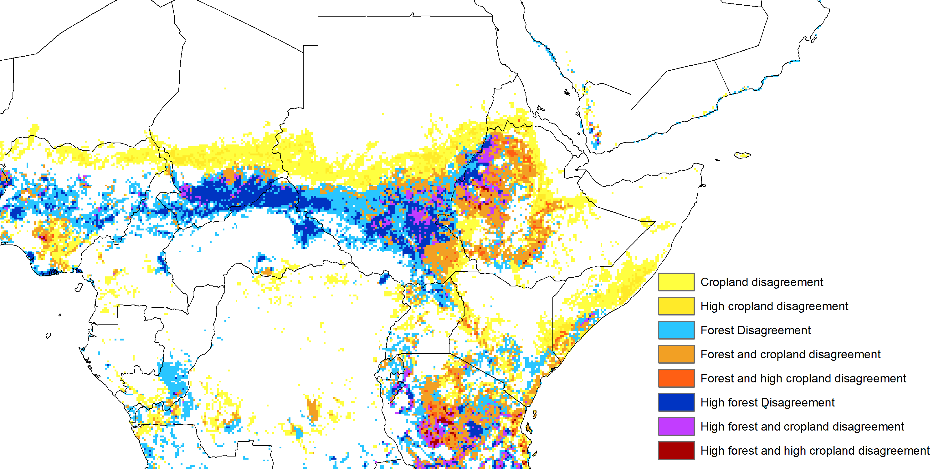 Map of land cover disagreement over Africa for cropland and forest land, derived from GlobCover, MODIS and GLC2000, and available in